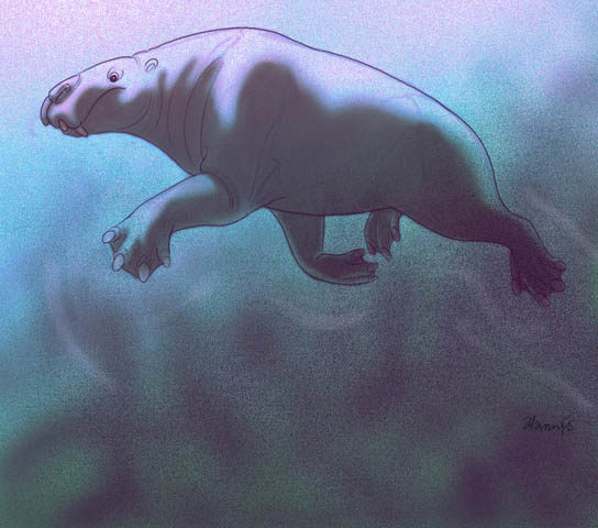 External reconstruction of Desmostylus